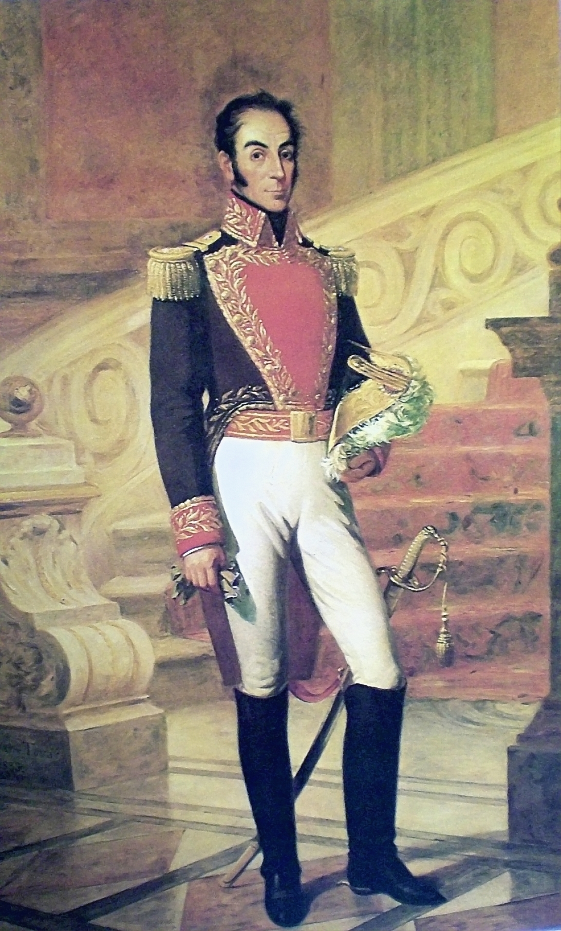 Portrait of Simón Bolívar by Martín Tovar y Tovar.